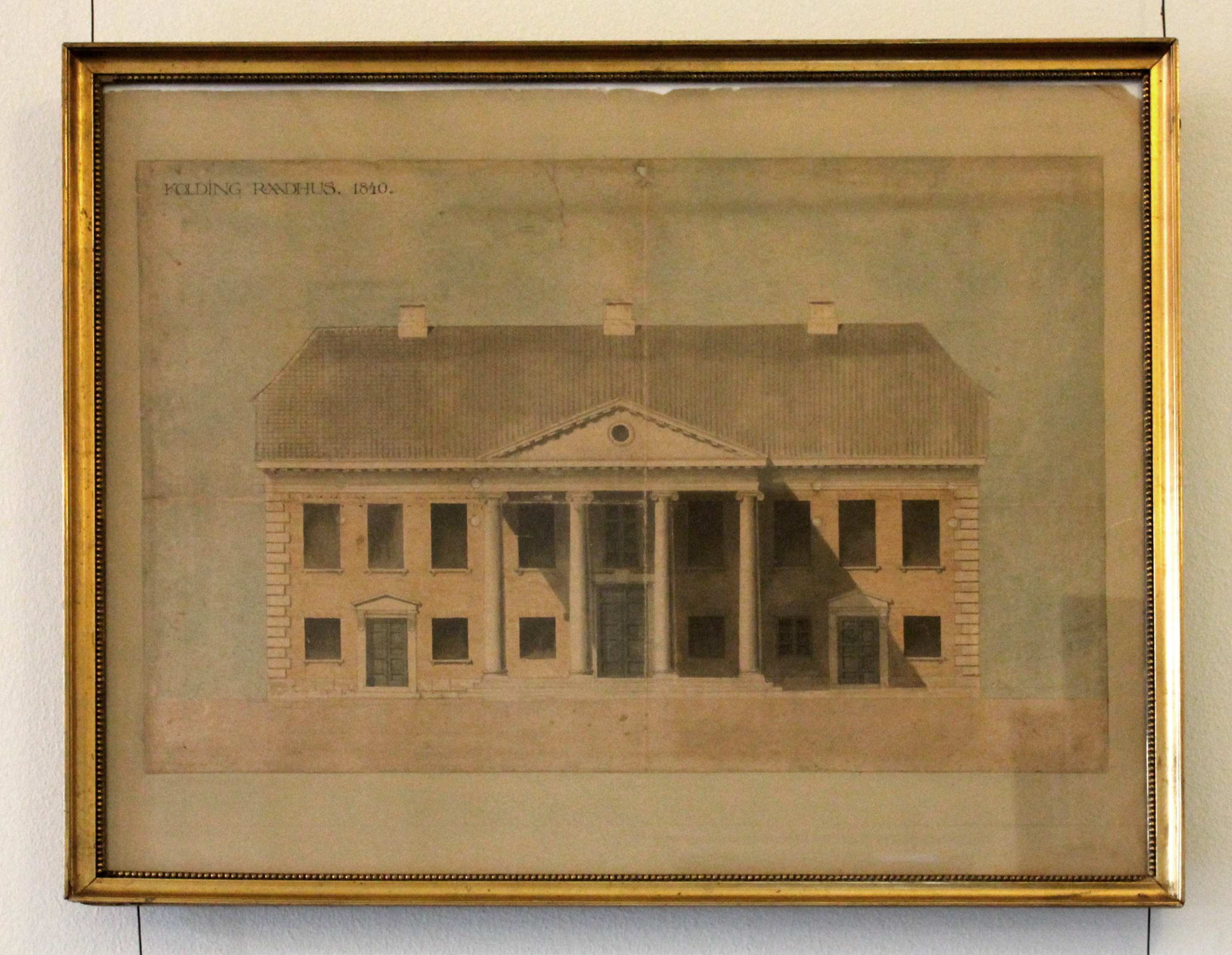 Cityhall.There have been town hall on the site since the 1500's. Kolding, Denmark.